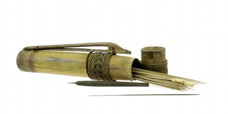 Bamboo quiver with blowpipe darts en bodkin